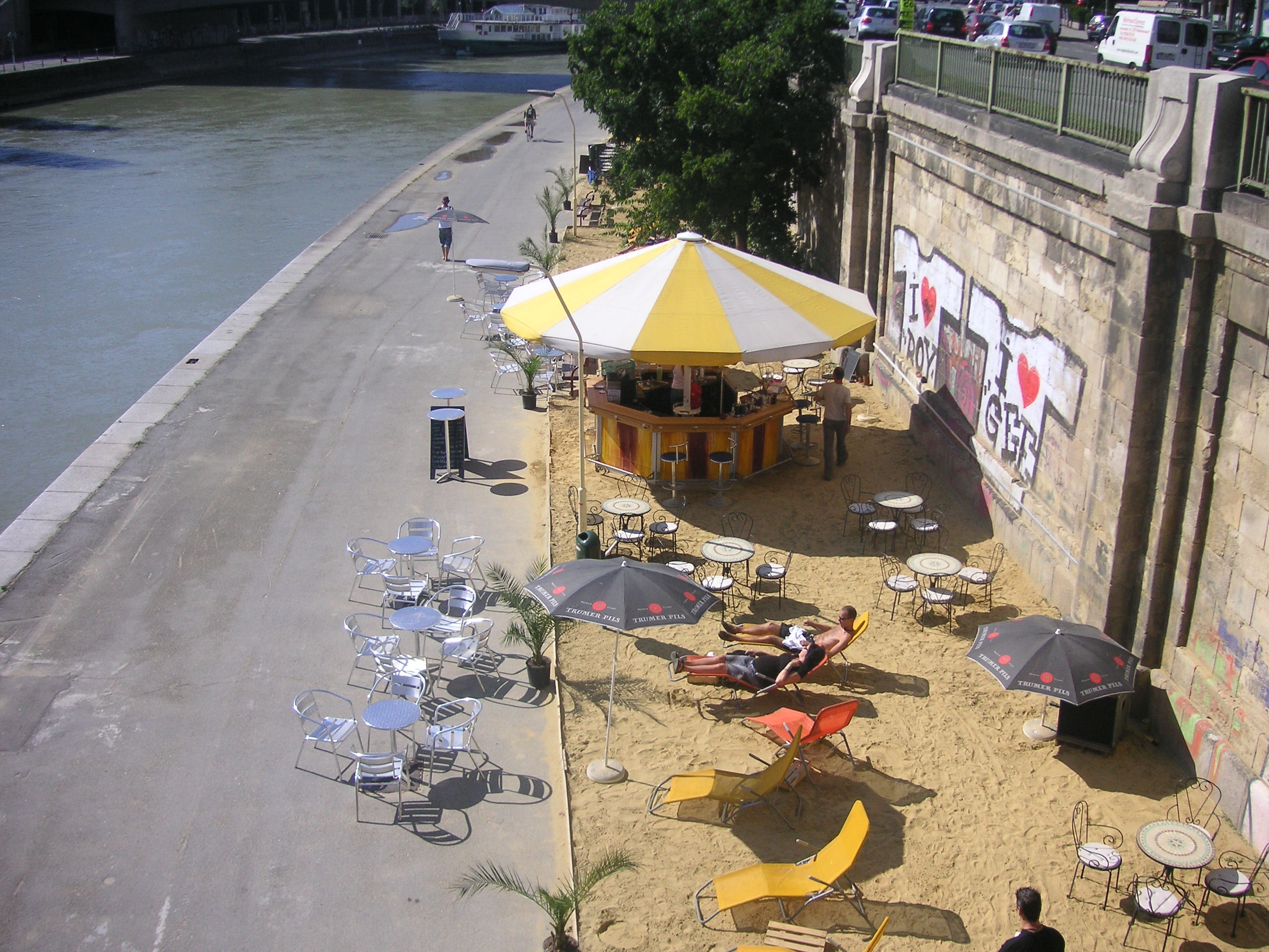 The Donaukanal, Vienna, Austria near Schwedenplatz, separating Innere Stadt from Leopoldstadt.